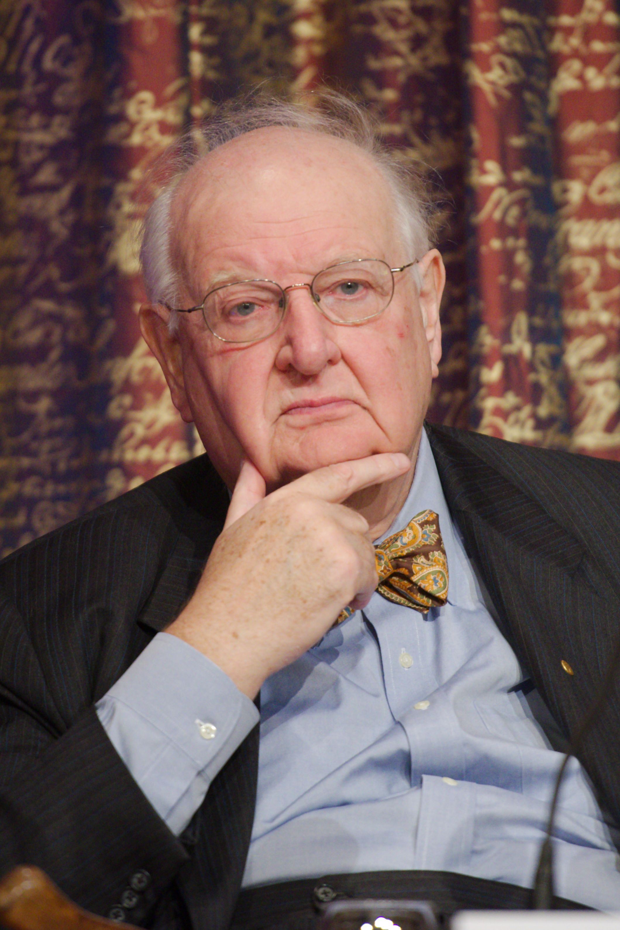 Angus Deaton at a press conference at the Royal Swedish Academy of Sciences